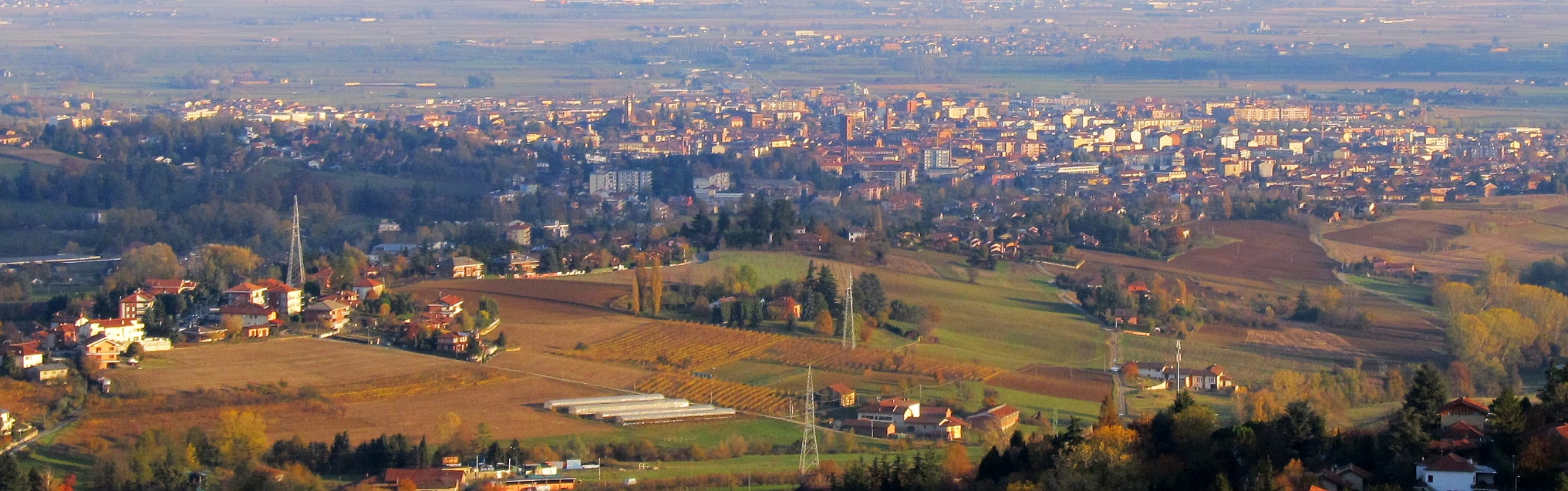 Chieri (TO, Italy): panorama